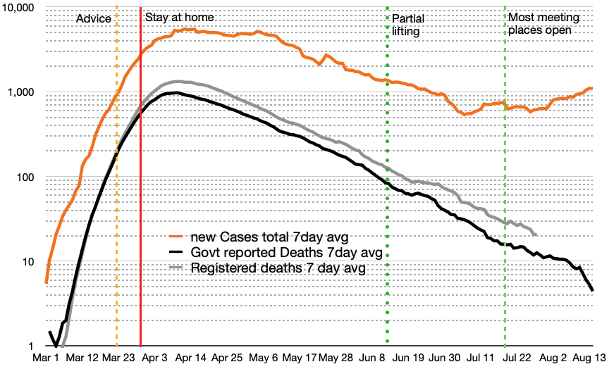 Graph showing the incidence of Covid-19 in the UK by the number of new cases and deaths on a logarithmic scale. It also shows the maximum levels of both of these per day and the proportion of the maximum at the initial lifting of the lockdown